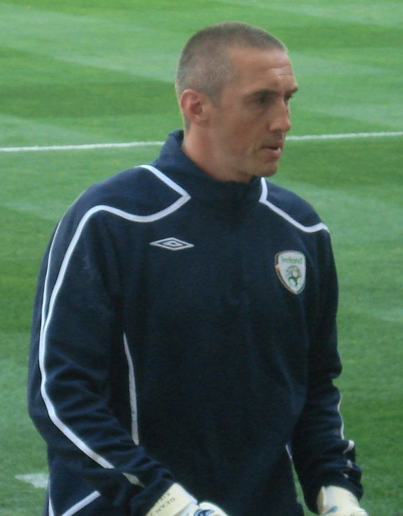 Dean Kiely lining up before the Republic of Ireland's match against Serbia at Croke Park, Dublin on 24 May 2008